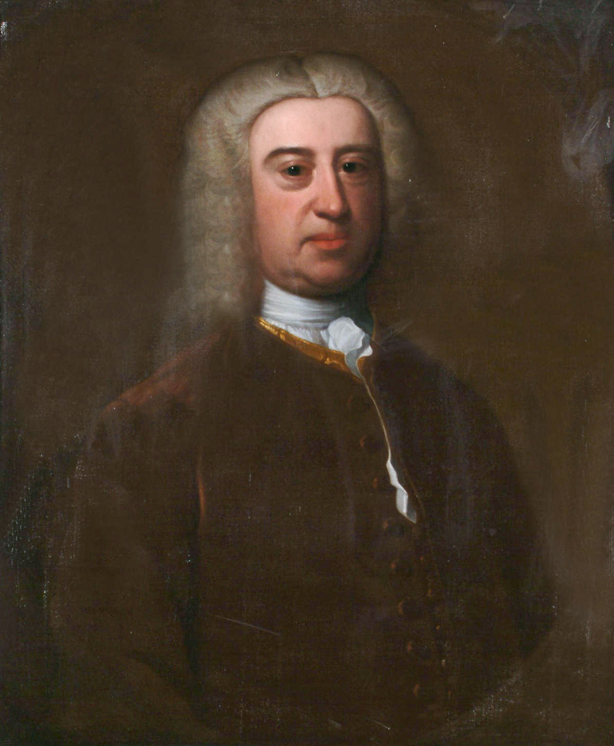 James Harris of Salisbury (1709-1780) oil on canvas 77 x 64 cm inscribed verso: James Harris of the..., Salisbury / Author of the chara...ties, and grandfather of the first Lord Malmesbury. Married the ...Elizabeth Ashley...of the...rd Earl of Shaftsbury. Died..1733